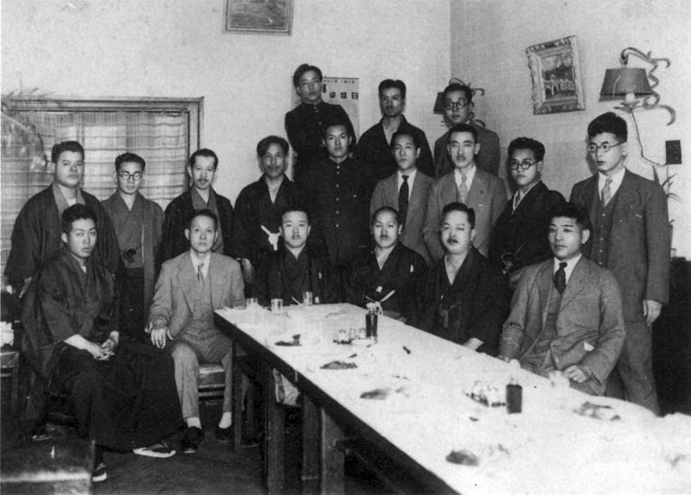 昭和13年、大日本武徳会で開催された武徳祭後の記念写真。(A photo after a Butoku festival held in Dai Nippon Butokukai in 1938).